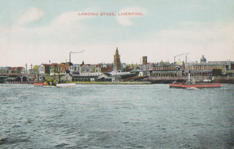 postcard entitled "Landing Stage, Liverpool", used in the post with green halfpenny stamp of King Edward VII, postmarked July 1909; on reverse "The Star Series, G. D. & D. L. Printed in Germany"